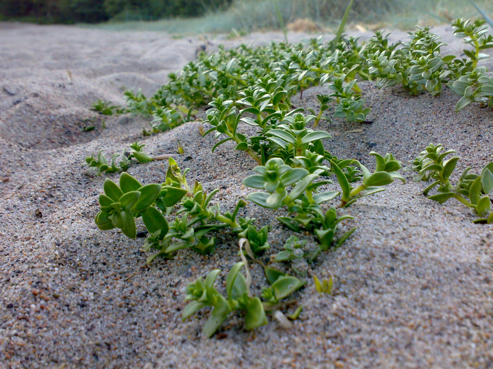 Honckenya peploides in Hurum, Norway